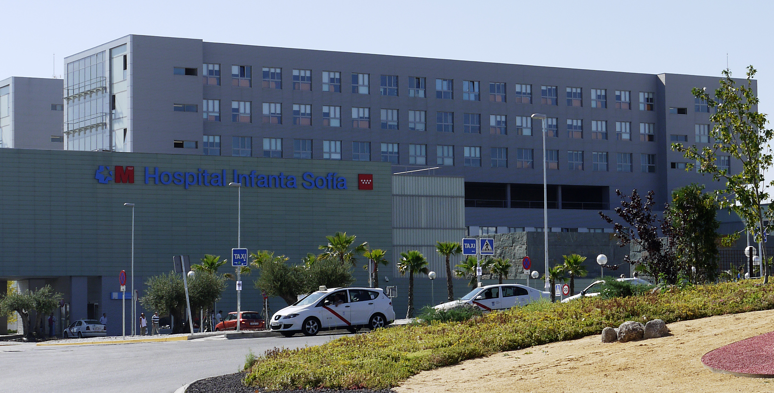 Hospital Infanta Sofía. San Sebastián de los Reyes, Spain.